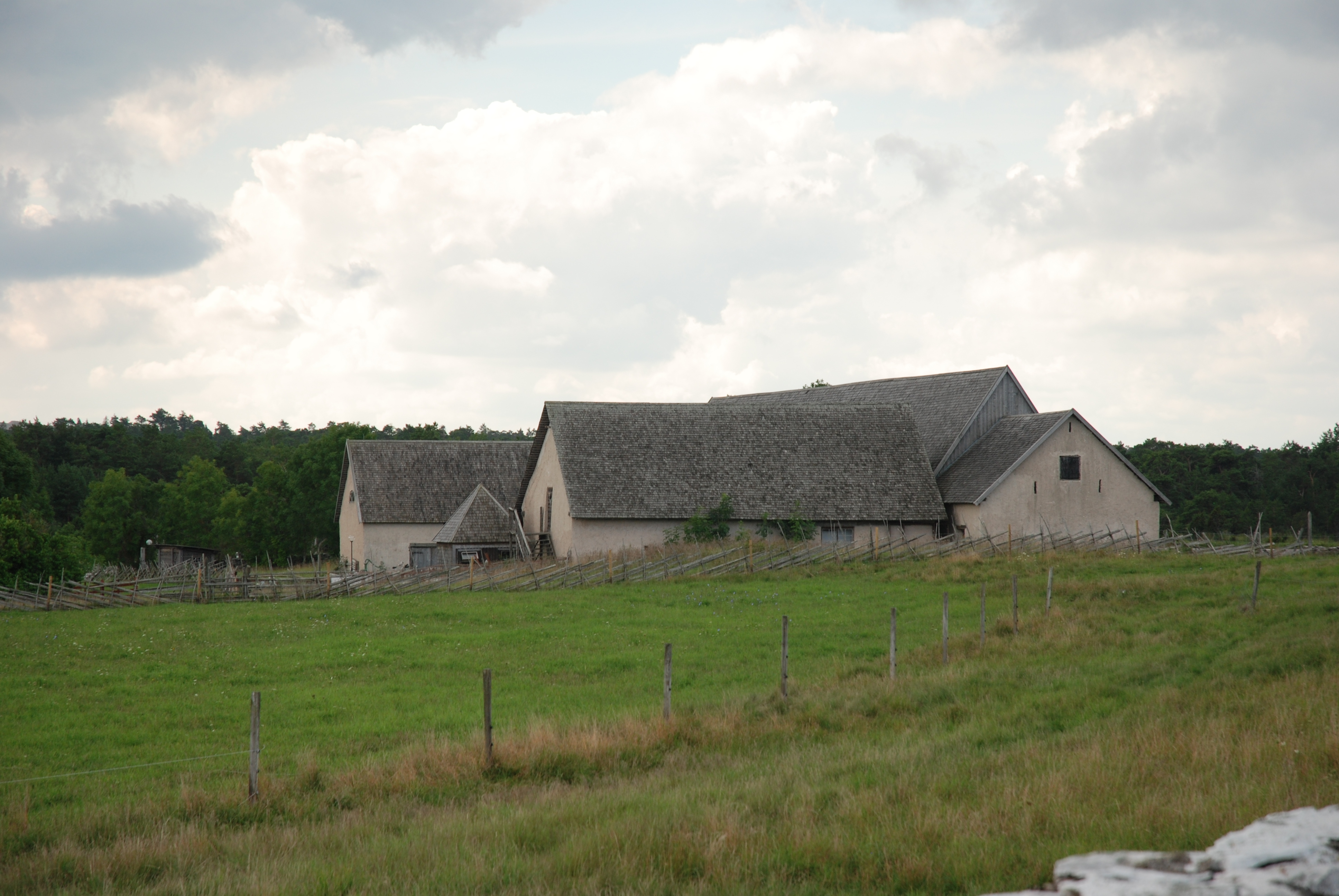 Hau farm in Gotland, economy buildings (Hau western farm)